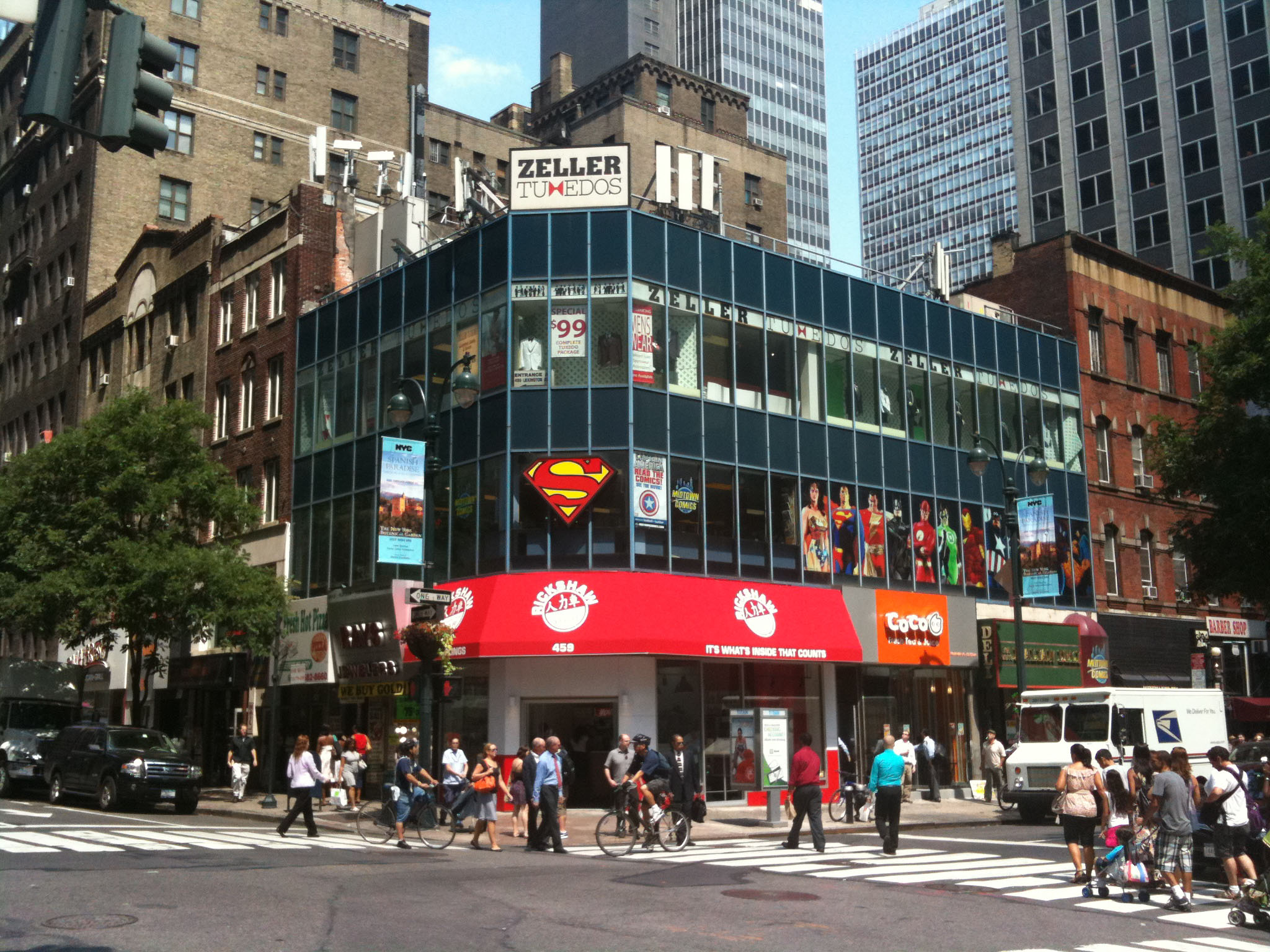 Midtown Comics Grand Central on Lexington Avenue at 45th Street.